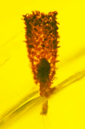 Sporophore of the bird’s nest fungus, Cyathus dominicanus, in Dominican amber.